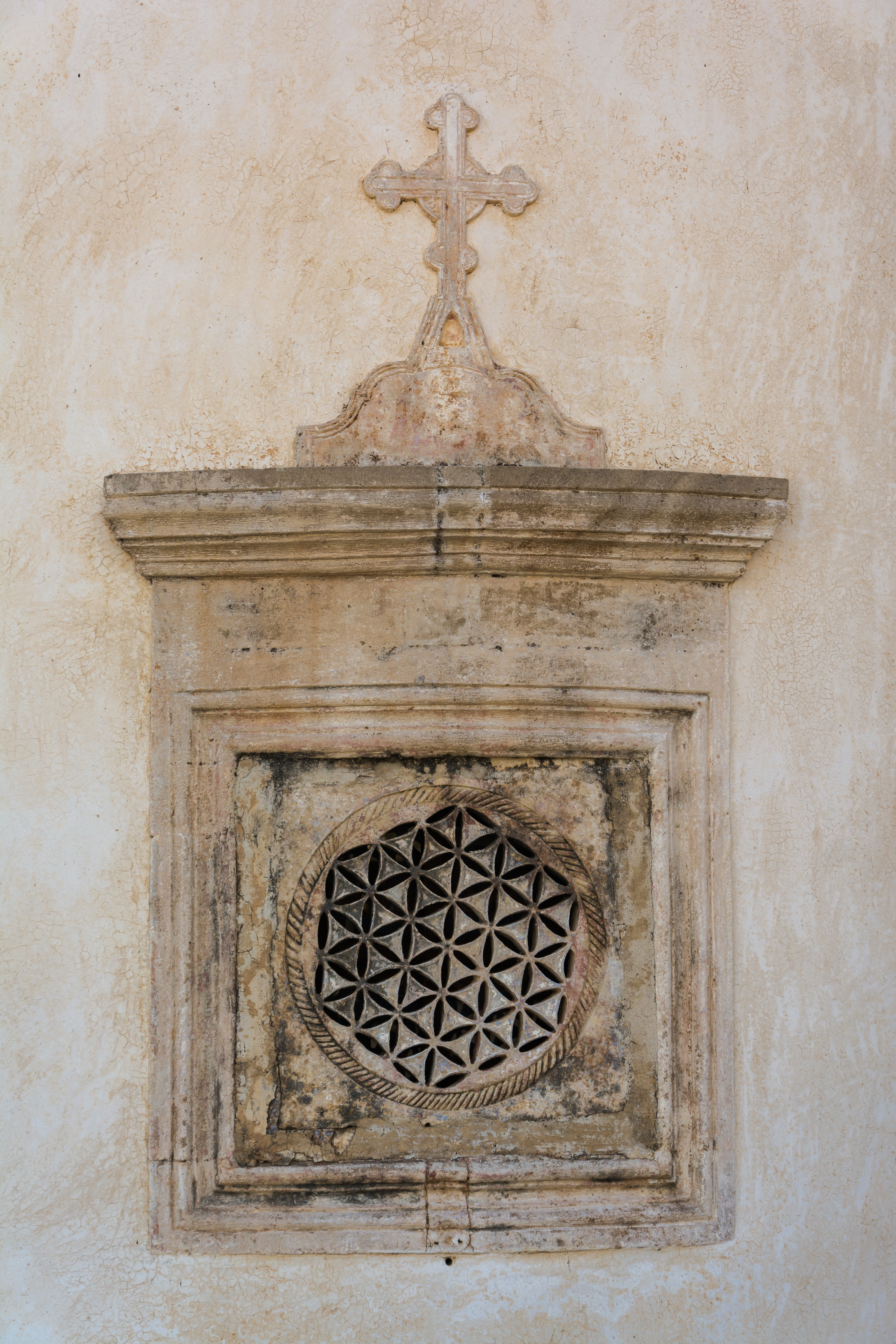 Window in the shape of a Flower of Life at the southern apsis of the church of Preveli Monastery (Moni Preveli), Crete